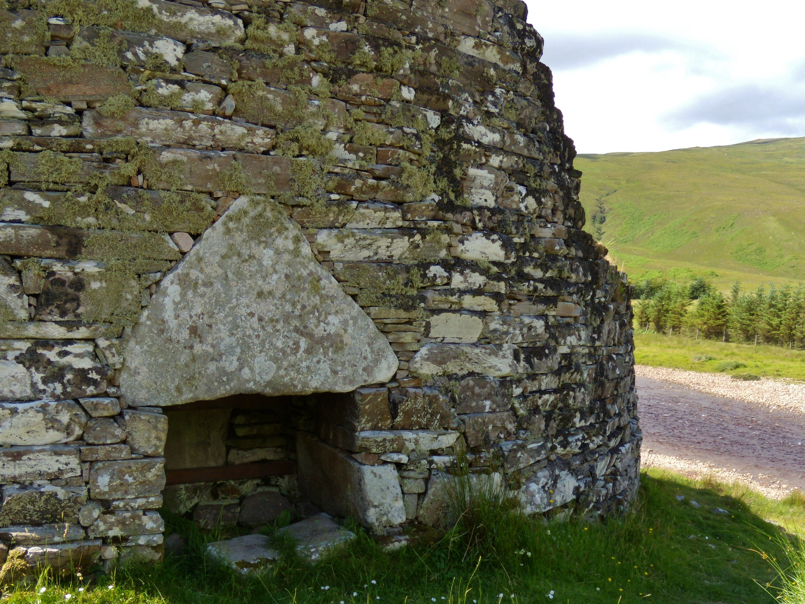 Though the triangle lintel helped to distribute the weight of the wall, it was not strictly necessary, leading archaeologists to think that it was also a status symbol, or display of importance.